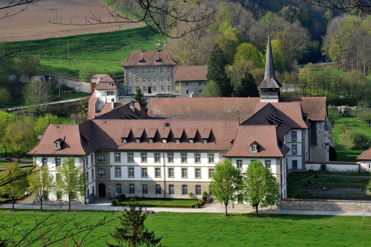 Abbey Altenryf in Hauterive; Fribourg, Switzerland.